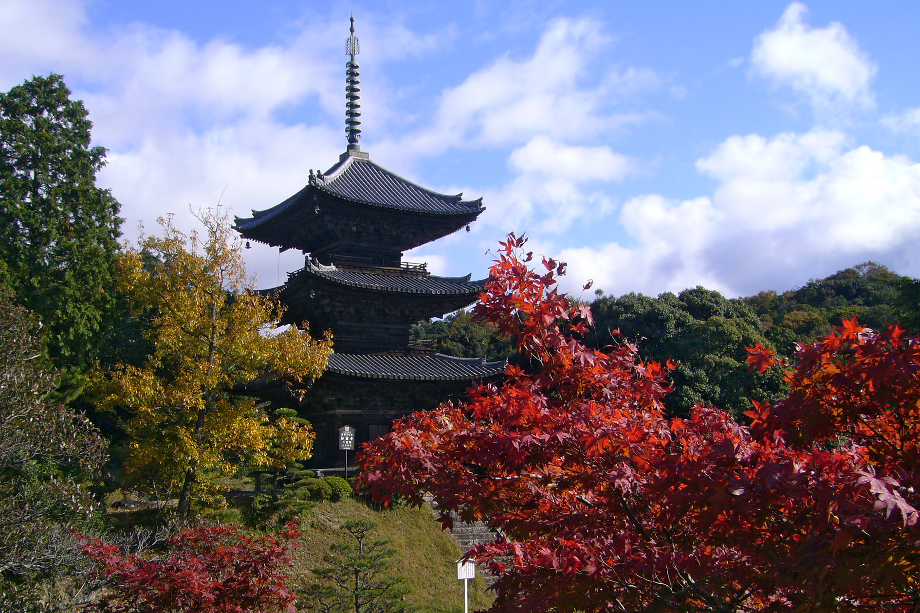 Nyoi-ji's Pagoda is Japan's Important Cultural Property in Kobe, Hyogo prefecture, Japan